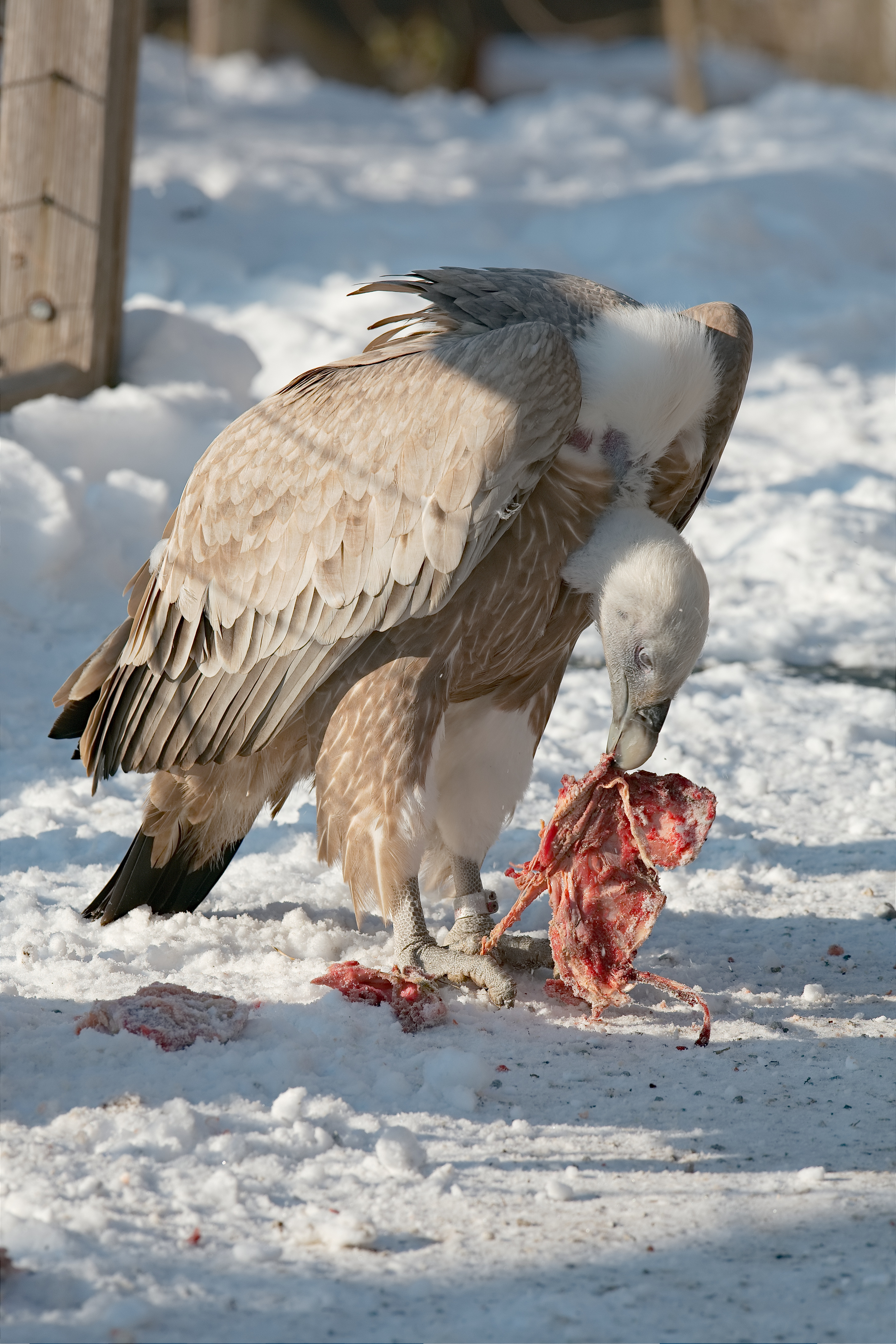 Gyps fulvus at zoo Salzburg 2010